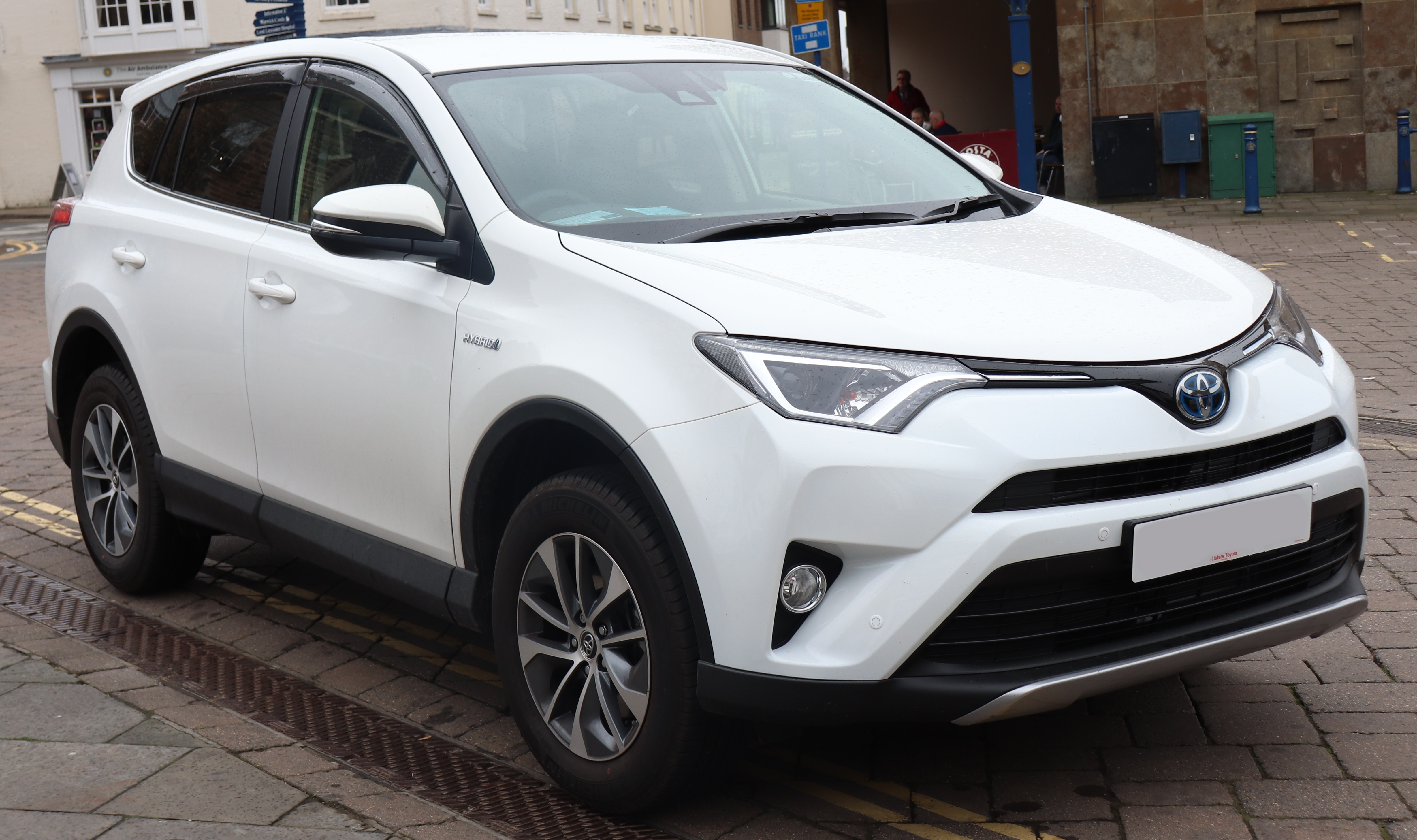 2018 Toyota RAV4 Hybrid Icon Tech TSS HEV 4X4 2.5 Taken in Warwick